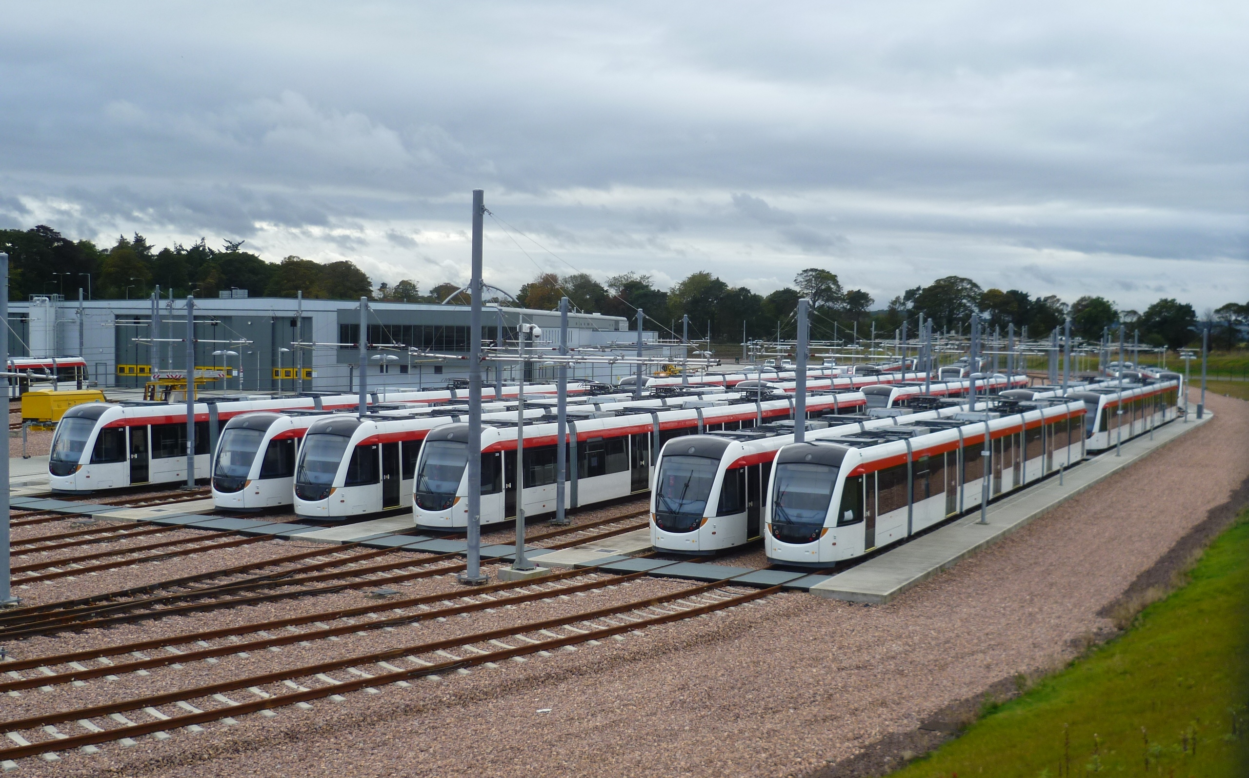 Edinburgh Trams in the Gogar Tram Depot. The first tram arrived in April 2010, and by now most had arrived - the last of the 27 strong fleet arrived in December 2012. Testing began in December 2011 on what little track had been completed in the area of the depot - it wasn't until May 2014 that the system opened. Such were the delays and cancellations, that only 8 trams are needed to run the peak service.